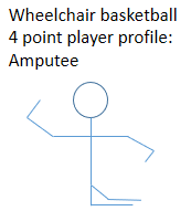 Created using information from . ISOD amputee class: A1 IWBF class: 4 point player